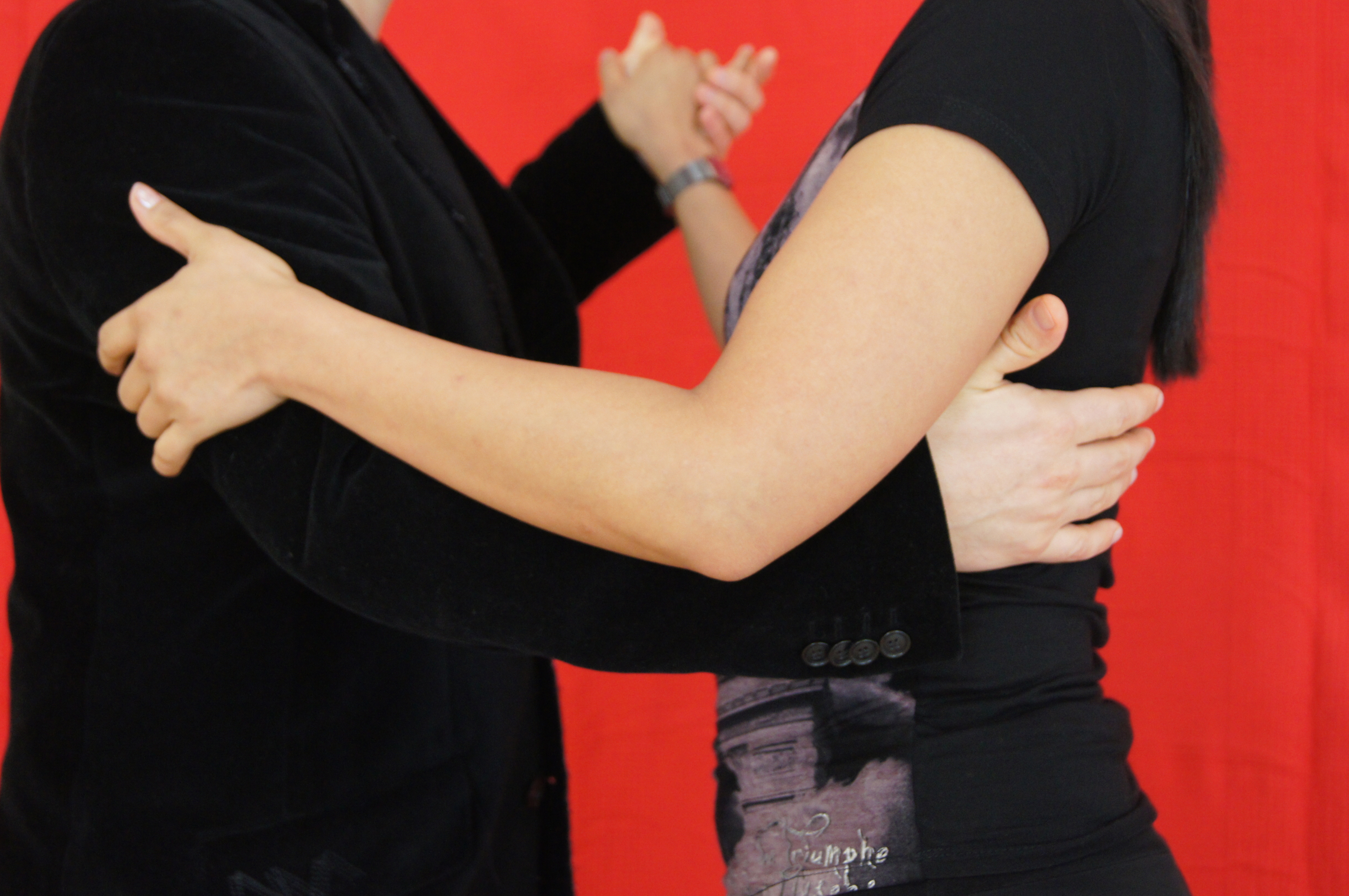 Argentine tango figures. Open embrace. Demonstrated by tango instructors Homer and Cristina Ladas, Stanford, CA, USA.